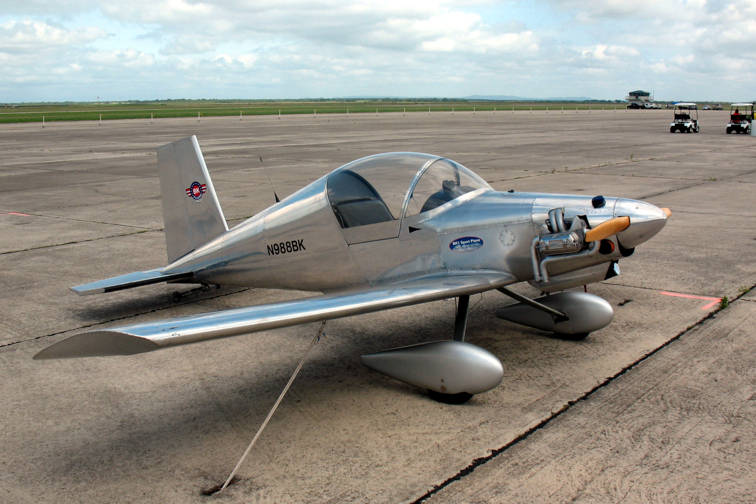 2004 BK Flyers BK1.0, c/n BK1001, registration N988BK. Taken at the 2007 South West Regional Fly-In in Hondo, TX on 2007-06-01